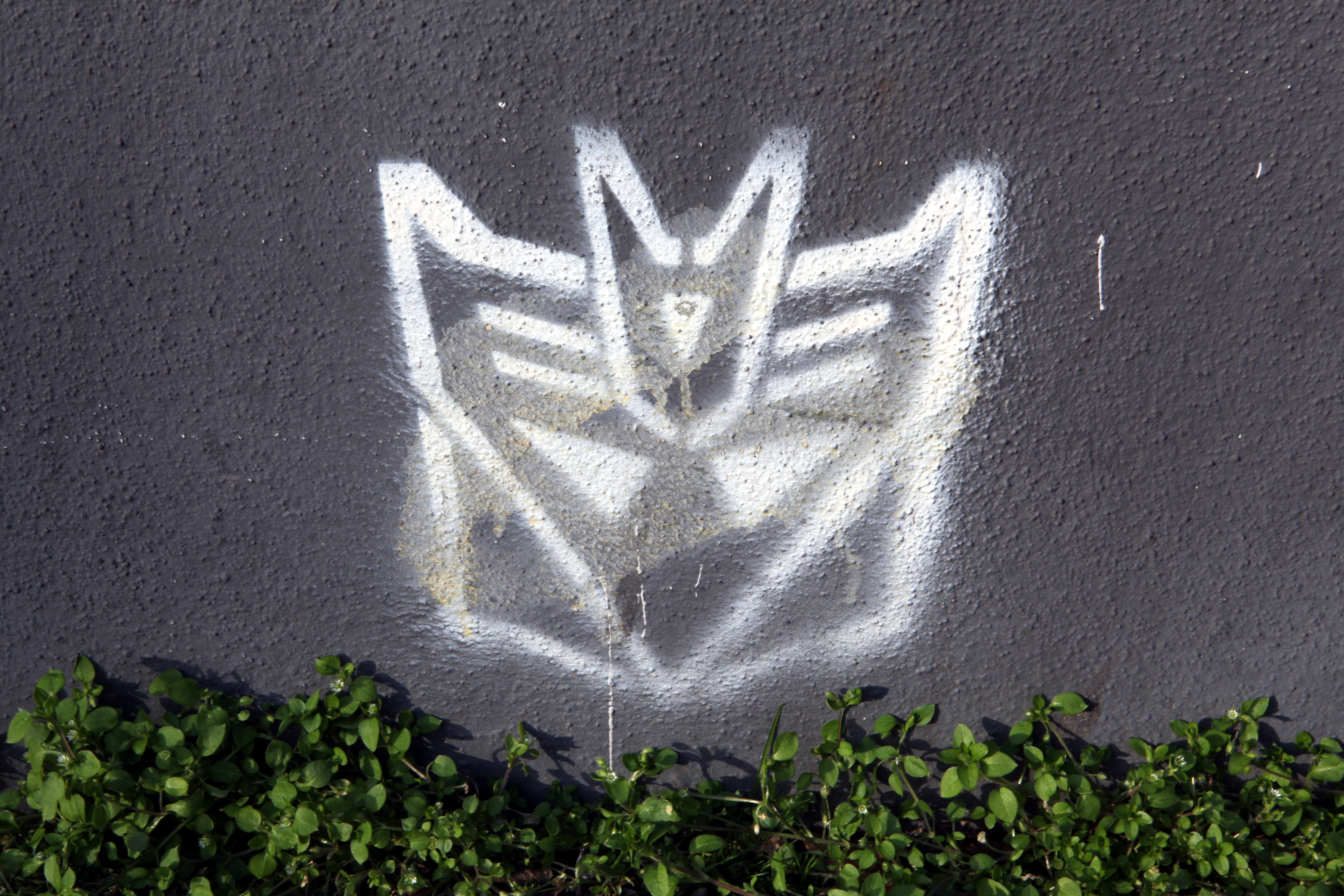 Flickr data on 2011-08-16: Tags: graffiti stencil License: CC BY 2.0 User: Joost J. Bakker IJmuiden Joost J. Bakker